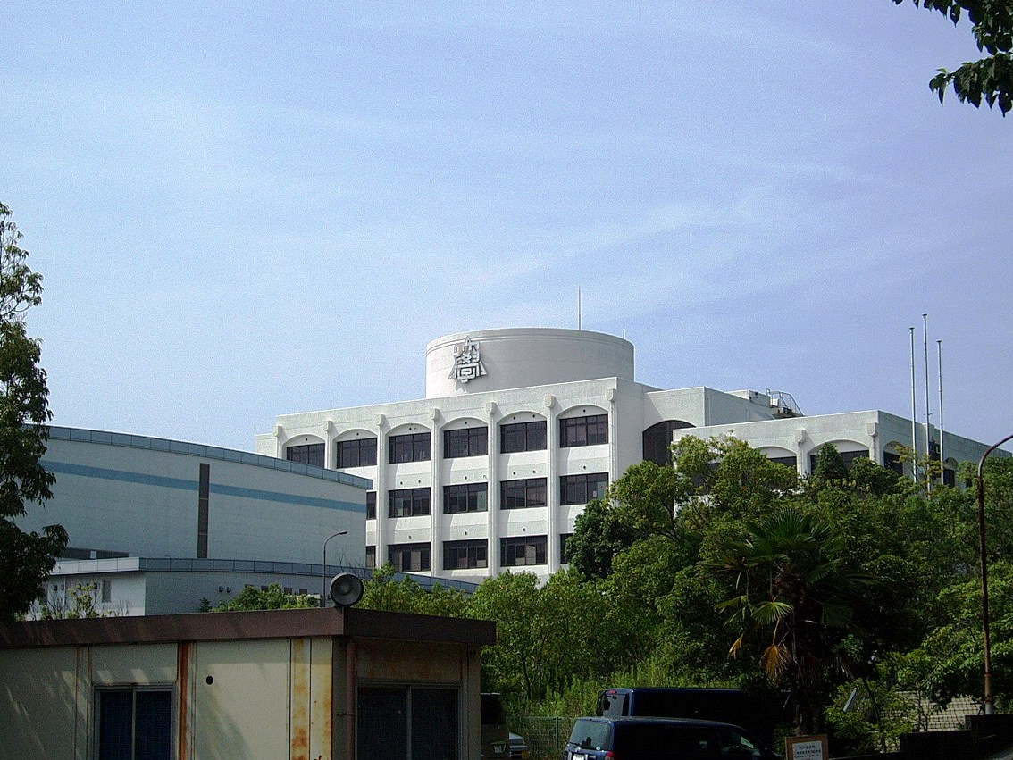 Hayashiyama Campus of Kobe Gakuin Women's College (integrated into Kobe Gakuin University in 2005), located in Hayashiyama-cho, Nagata-ku, Kobe, Hyogo, Japan.